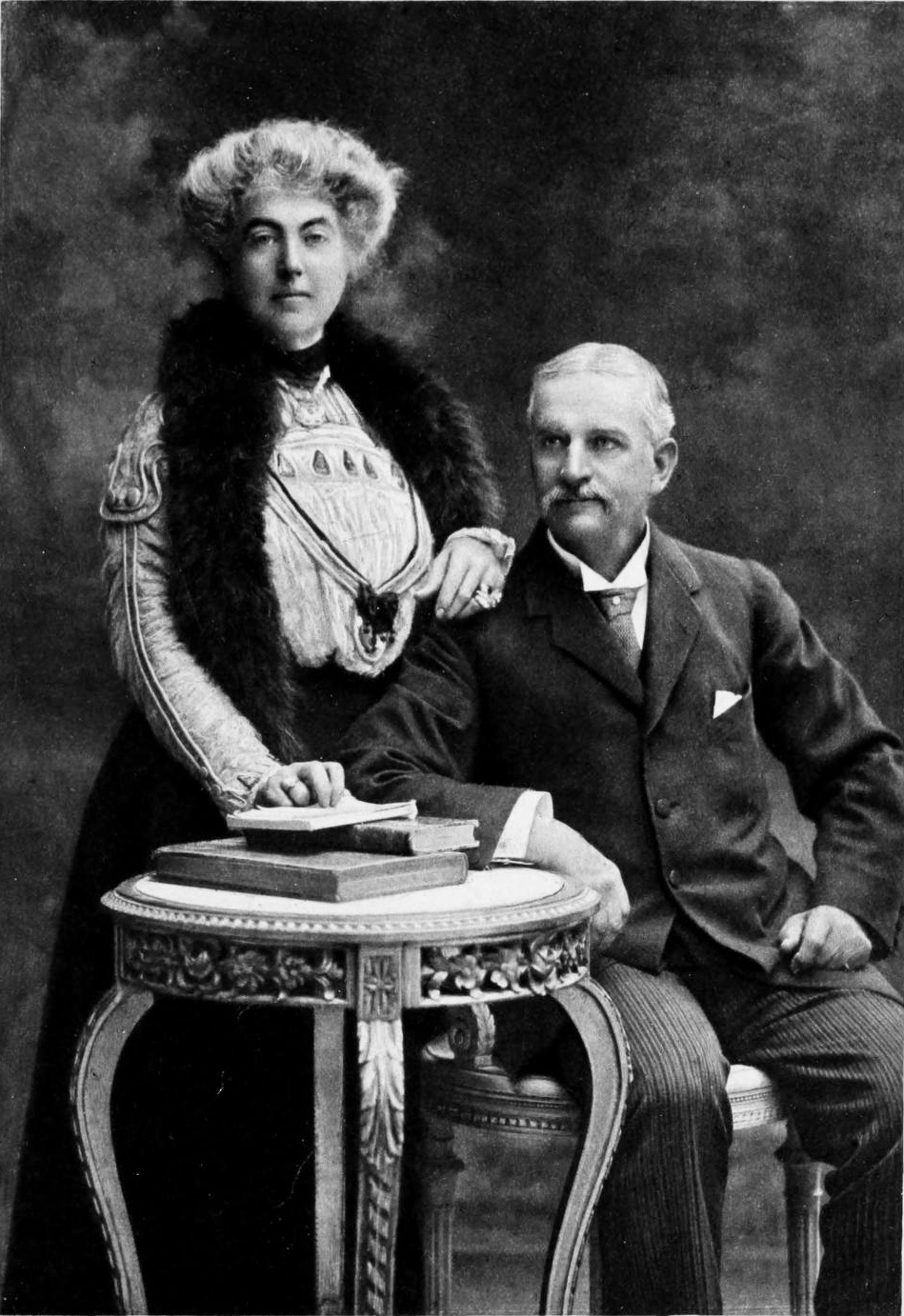 William Hunter Workman and Fanny Bullock Workman, husband and wife mountaineering and writing team.